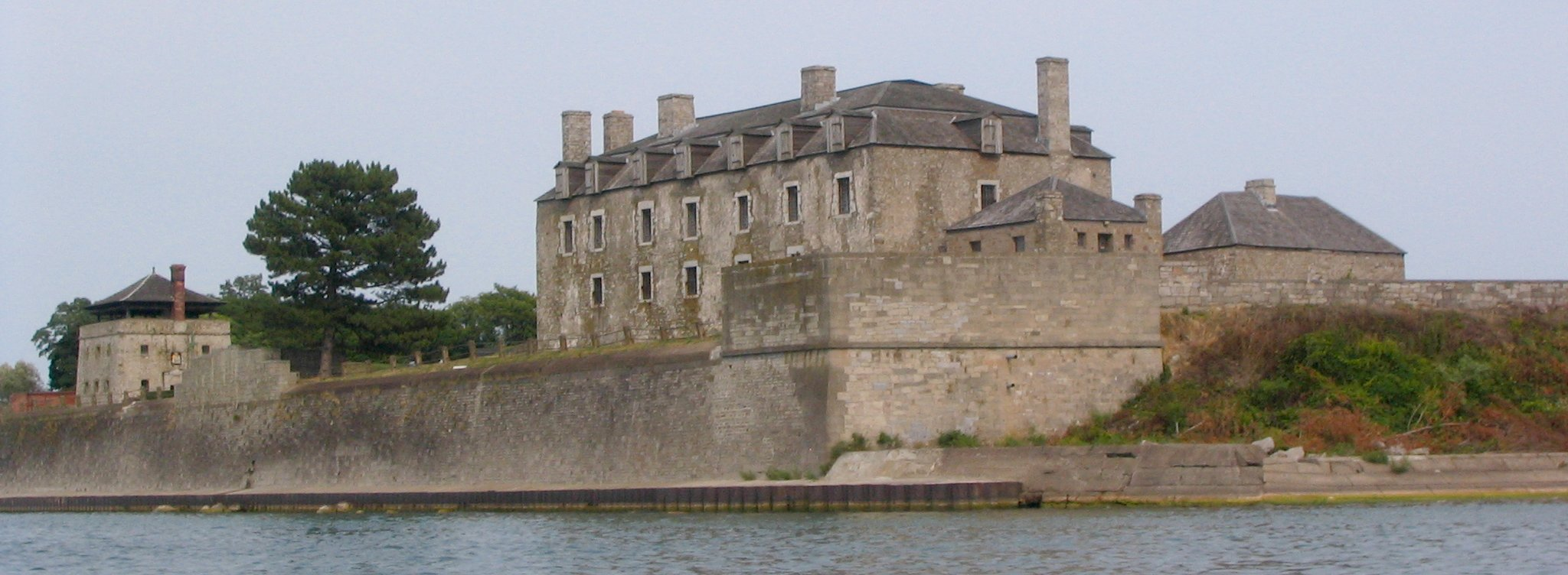 Fort Niagara from the lake, showing "The French Castle"